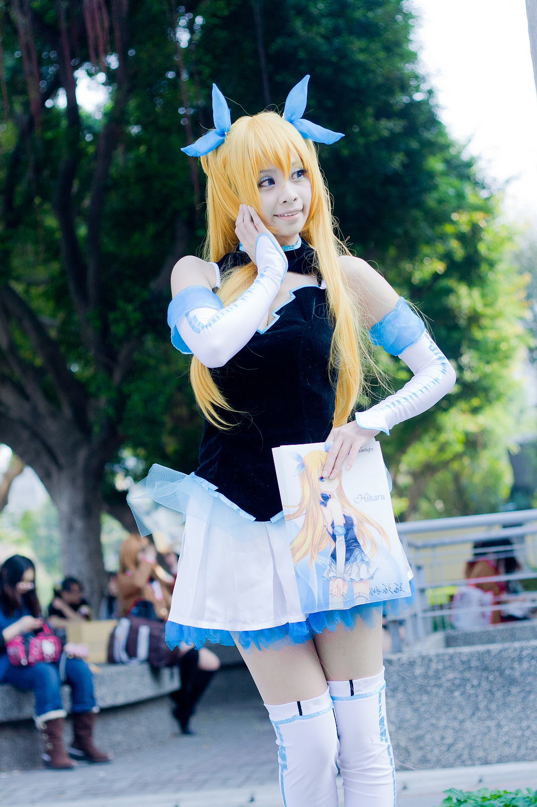 中文（台灣）: 第5屆Grand Journey同人誌展售會，藍澤光cosplayer。